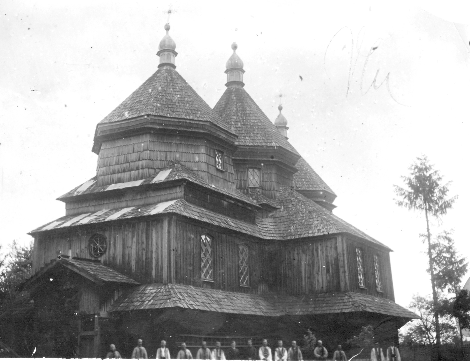 Church in Revacăuți, Cozmeni, Ukraine (image from the archive of the Metropolitan of Moldavia, 1936, free of copyright)